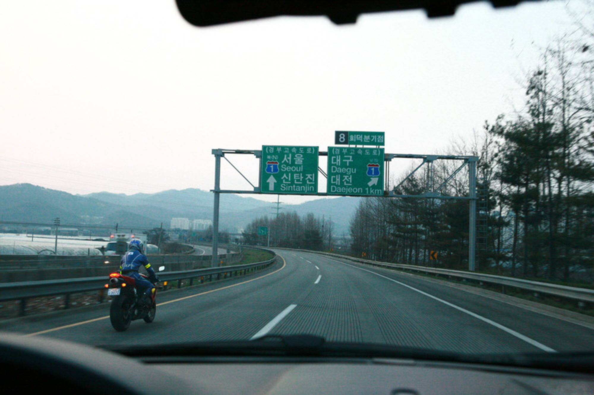 CBR1000RR on the Honam Expressway Branch, Directional sign of Hoedeok Junction 1km Ahead